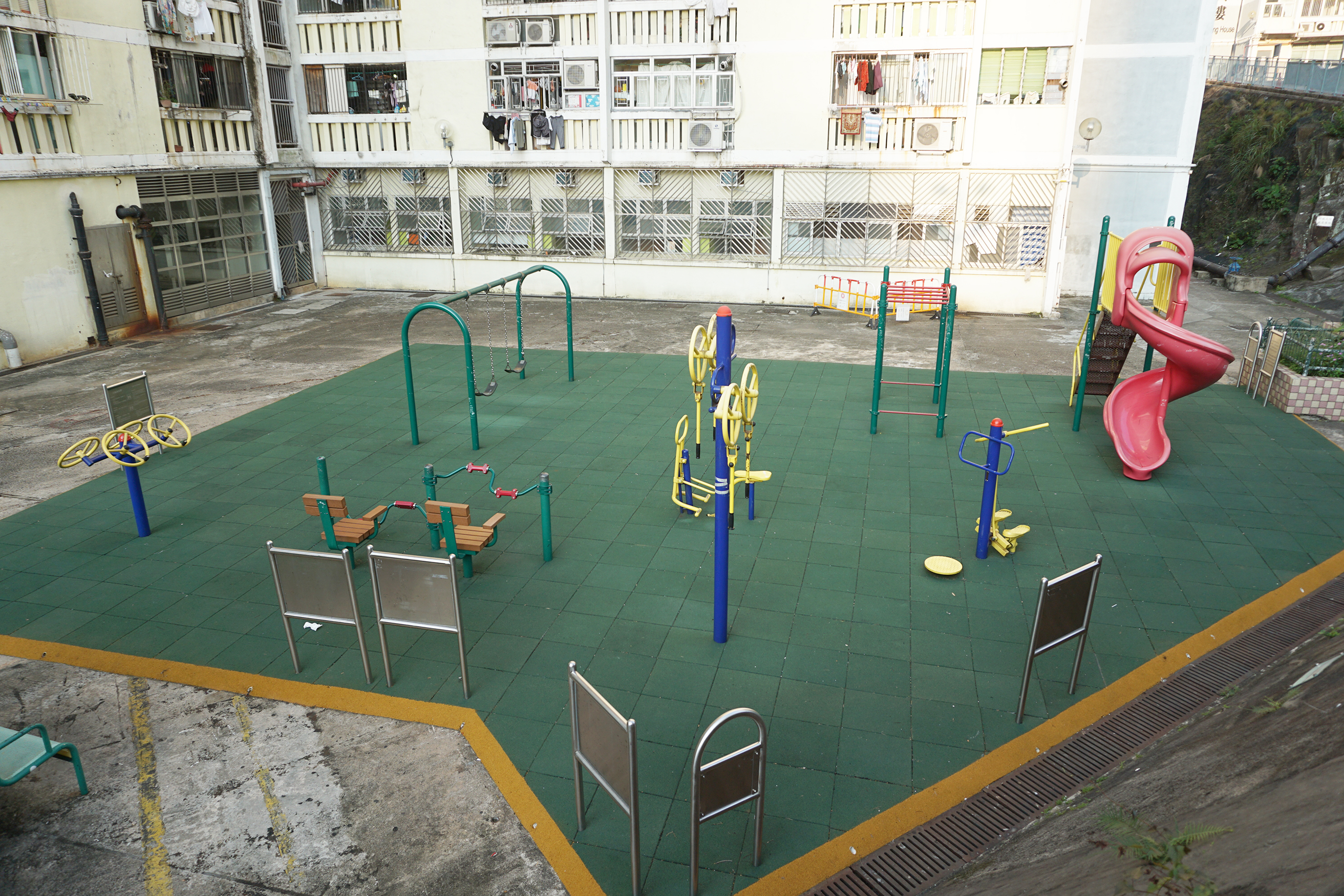 Wah Fu (II) Estate in Pok Fu Lam, Hong Kong.